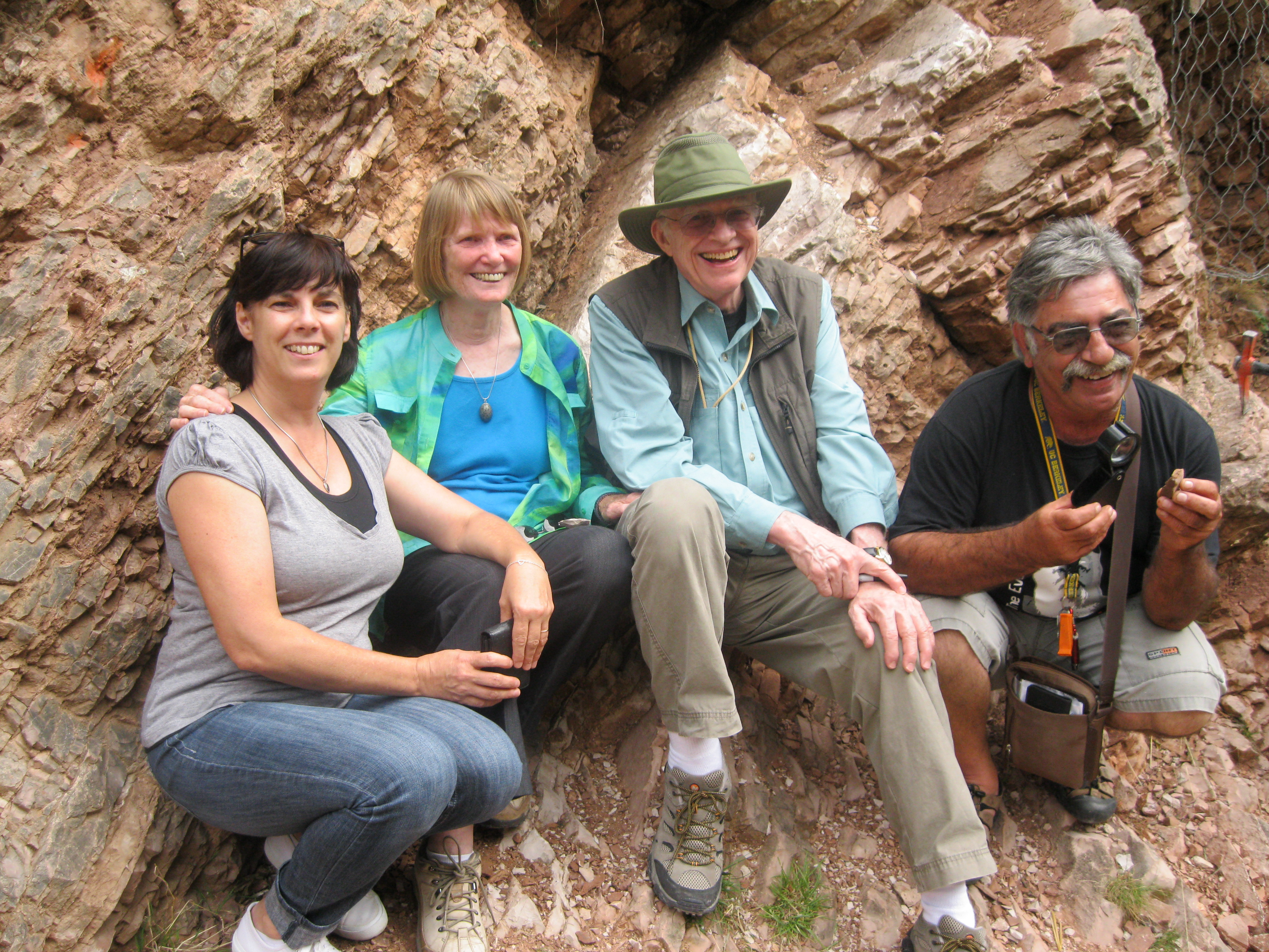 Geologist Walter Alvarez with his wife Milly Alvarez and then graduate student Alessandro Montanari (right) and his wife Paula Metallo (left) at the original site where Walter Alvarez discovered the evidence for the dinosaur extinction. The site is at the K/Pg (KT) boundary in the Bottaccione Gorge near Gubbio Italy.